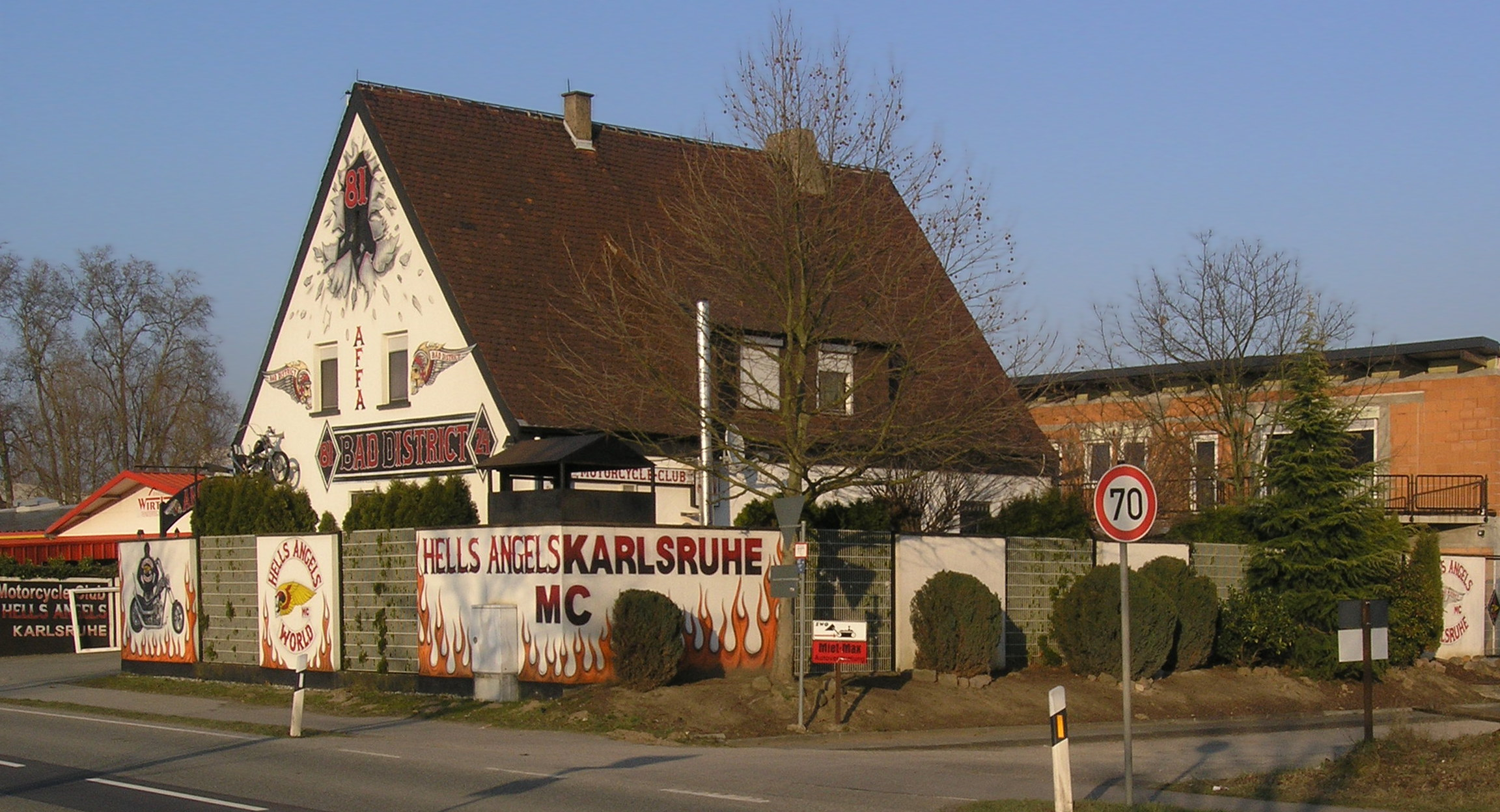 Hells Angels Germany, chapter Karlsruhe